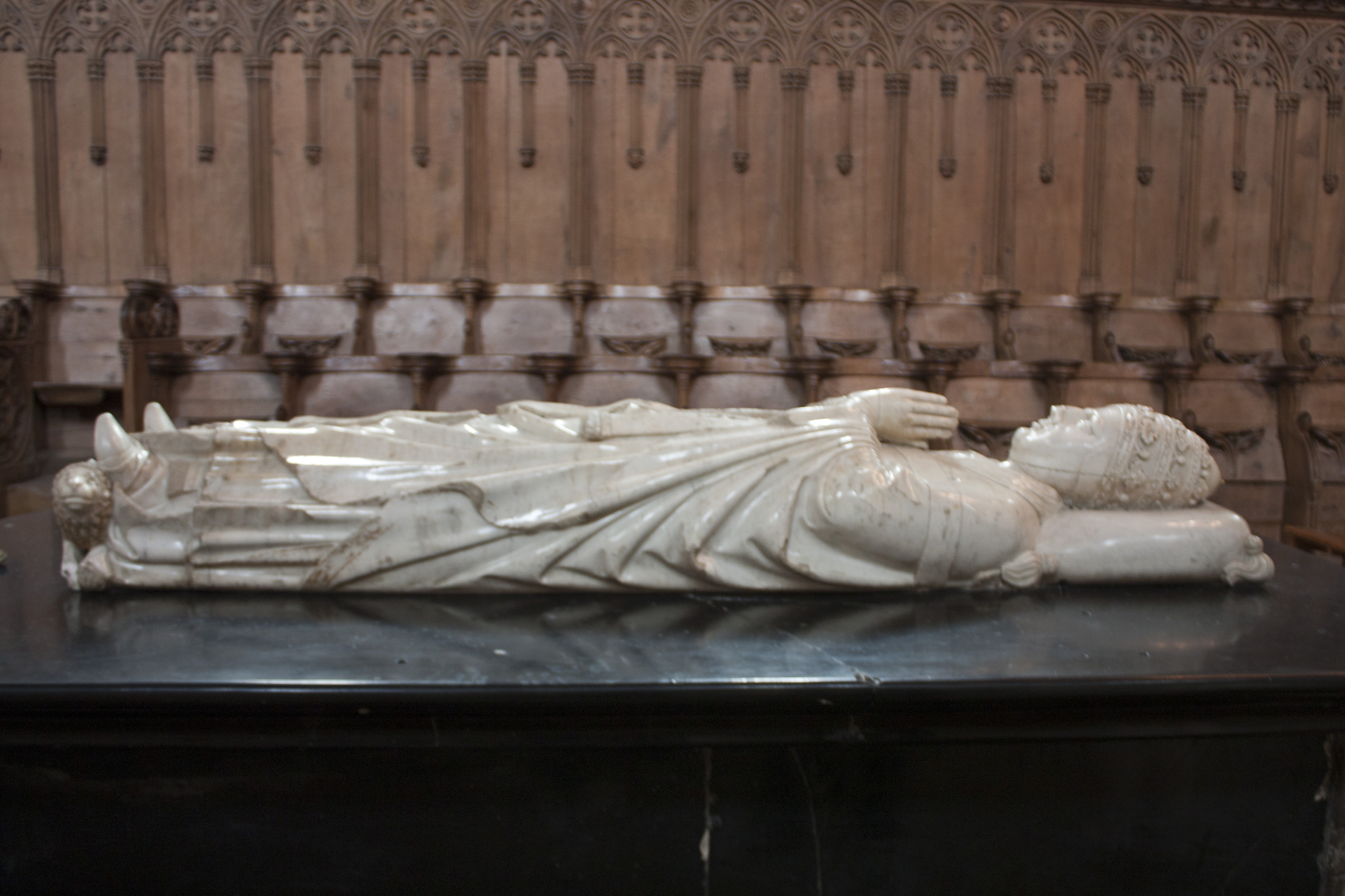 Effigy of Pope Clement VI, whose tomb was destroyed during the Revolution.